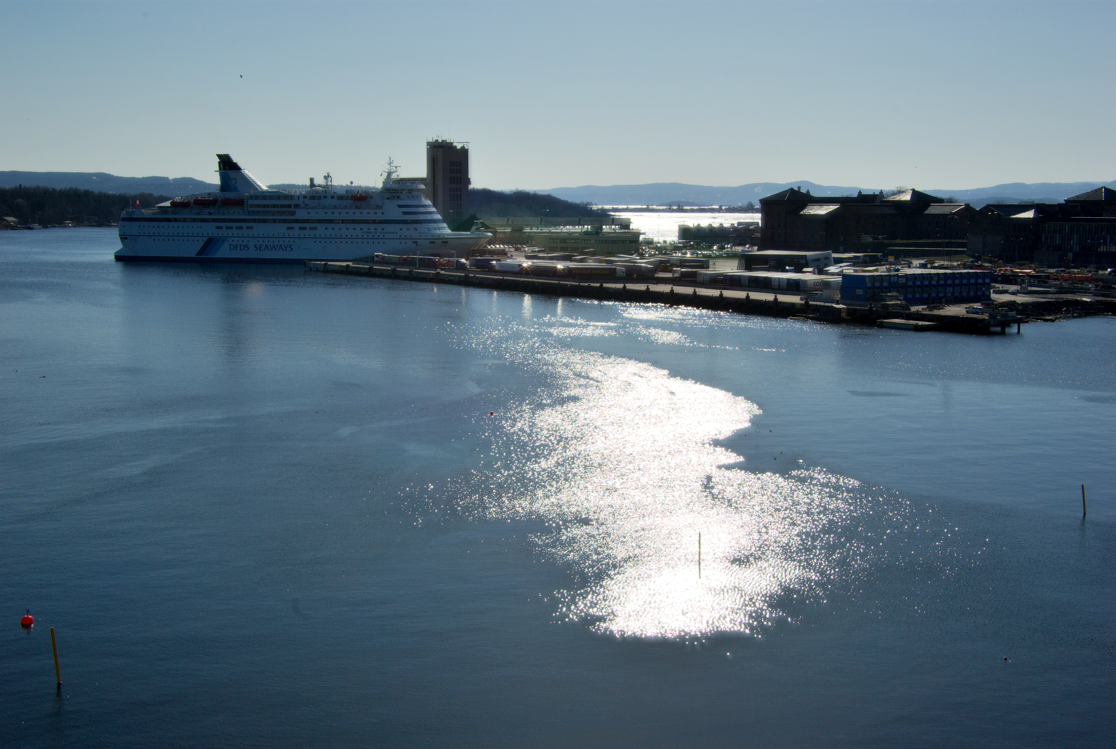 See above